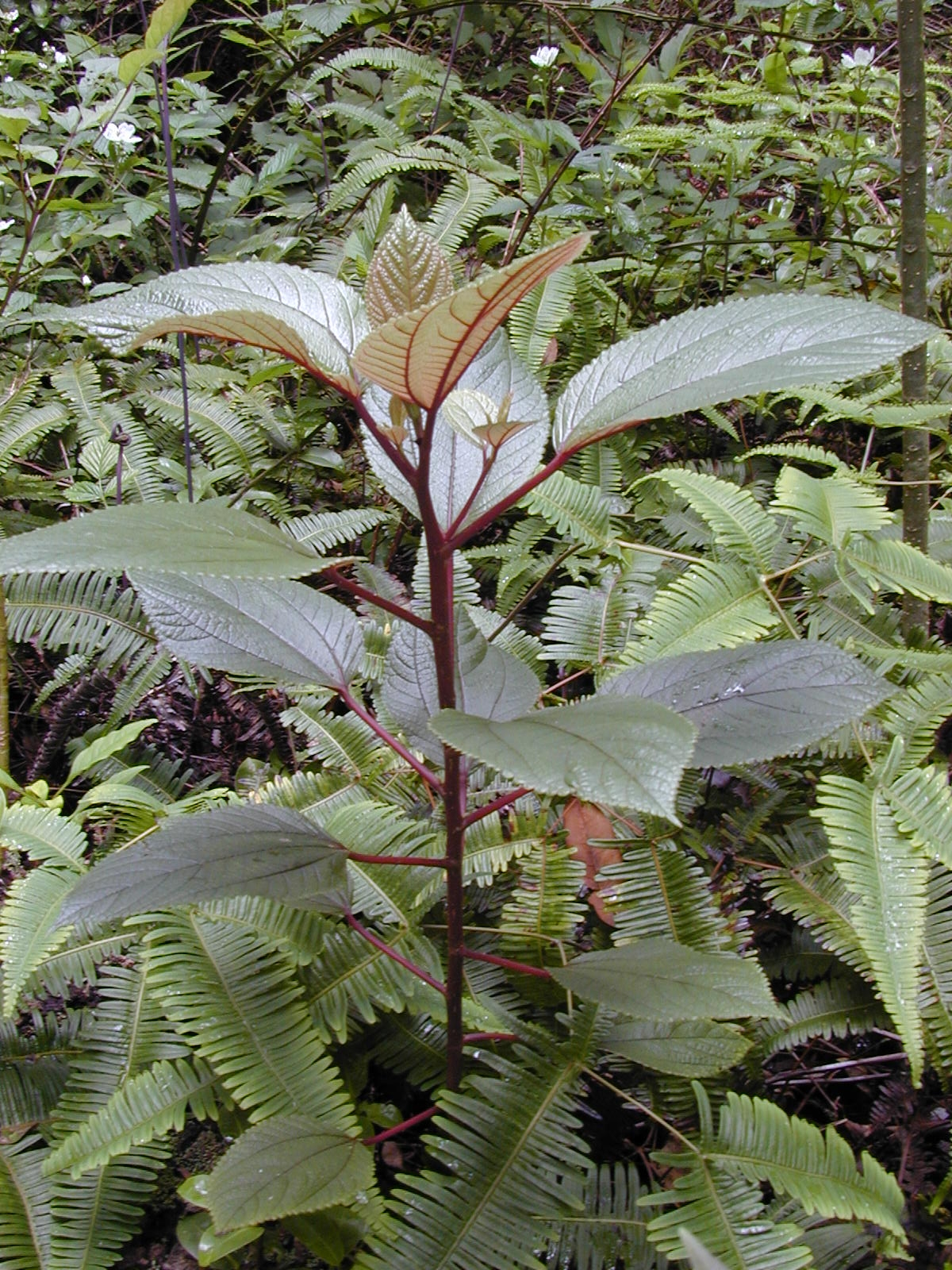 Pipturus albidus (habit). Location: Maui, Makawao Forest Reserve